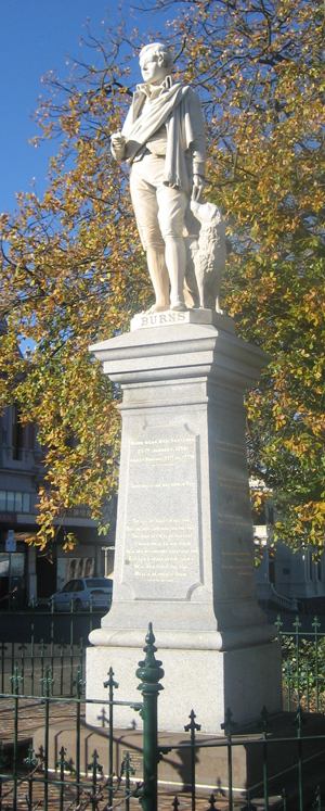 Robert Burns statue by sculptor John (Giovanni) Udny, unveiled in 1897, Sturt Street Gardens Ballarat Victoria Australia